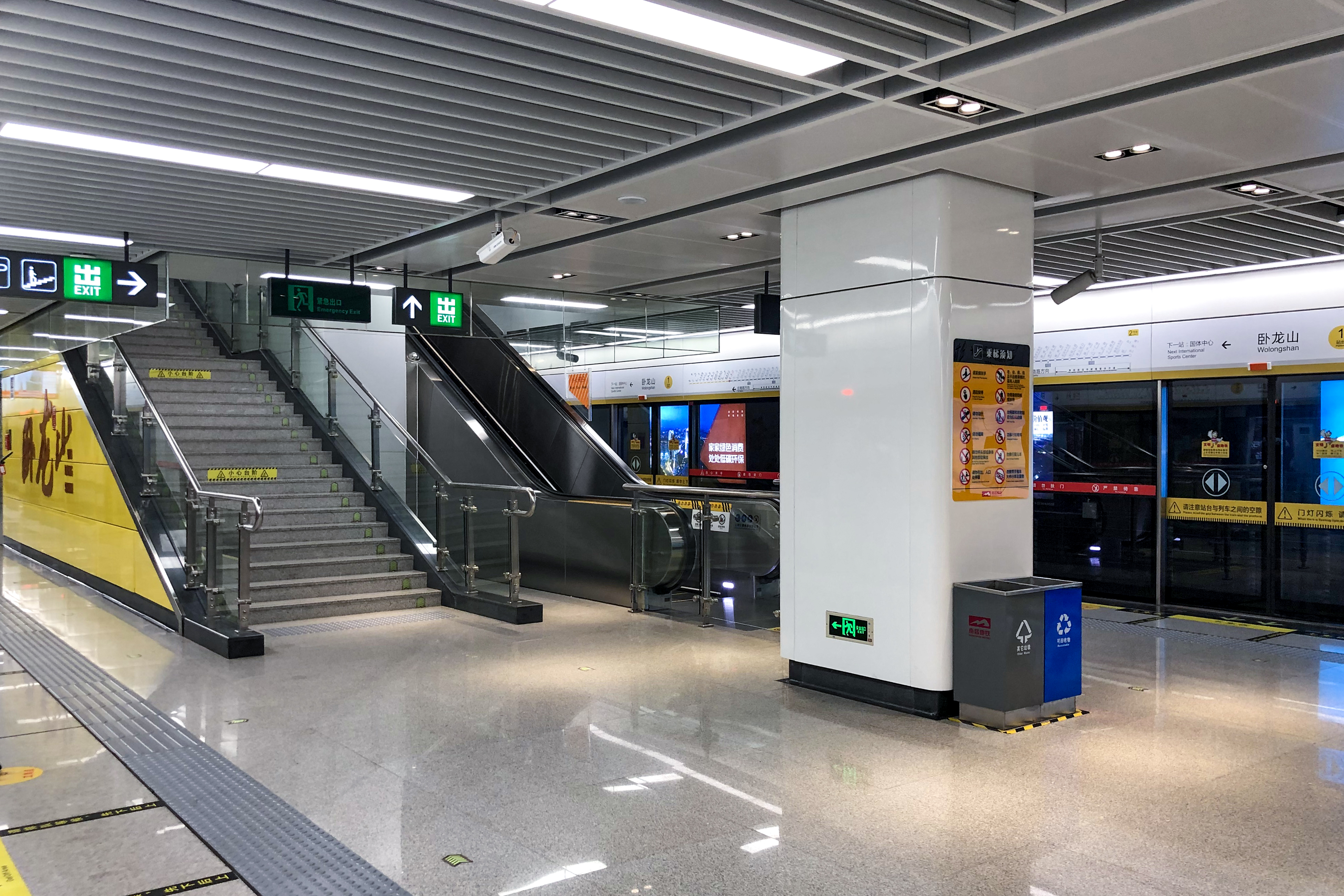 Near the provincial government of Jiangxi.